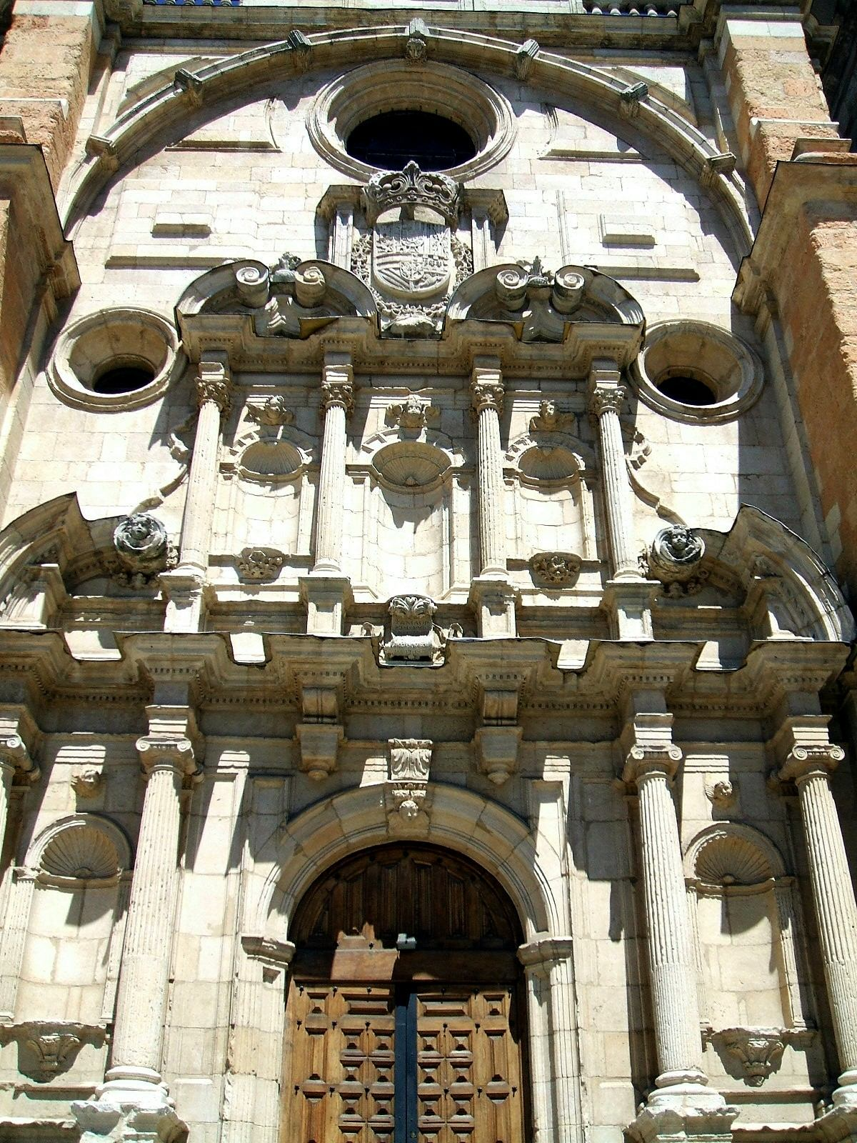 Portada barroca (1711) del arruinado Monasterio de Pedro de Eslonza, hoy en la fachada de la Iglesia de San Juan y San Pedro de Renueva, León, España